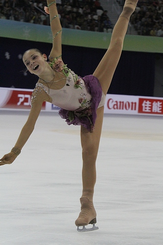 Adelina Sotniкova at the Cup of China 2011